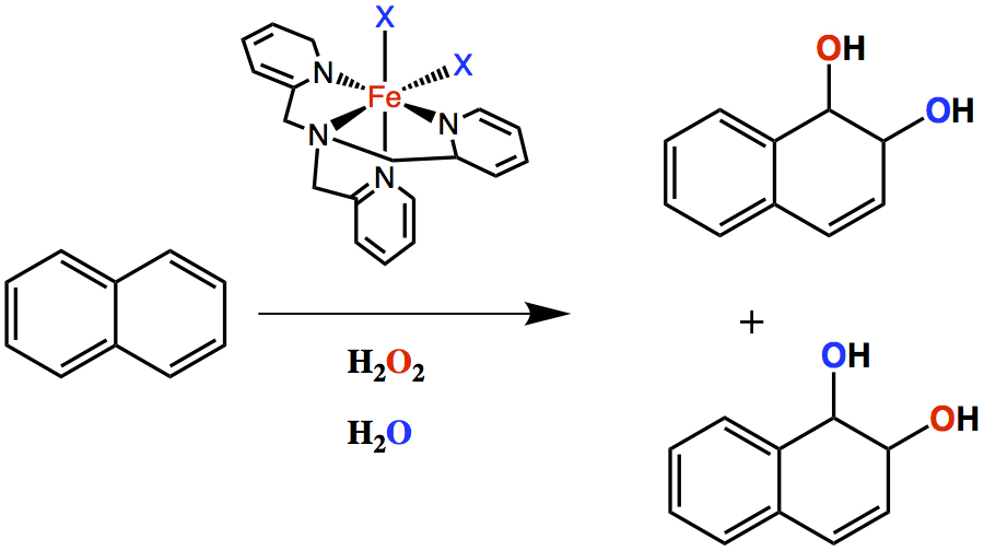 The structure of [Fe(II)(TPA)(CH3CN)2]2+ can be seen as the catalyst in this reaction scheme.